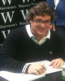 Cartoonist from Viz Comic, signing The Cleveland Steamer annual, leadenhall Market Waterstones, London